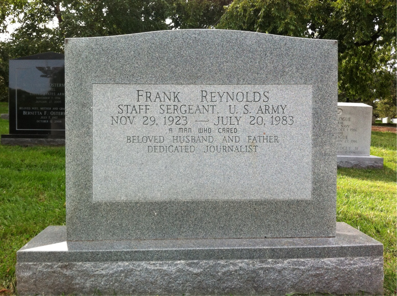 Grave of Frank Reynolds at Arlington National Cemetery